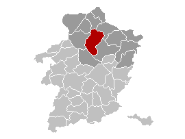 Map, municipality belgium Peer.